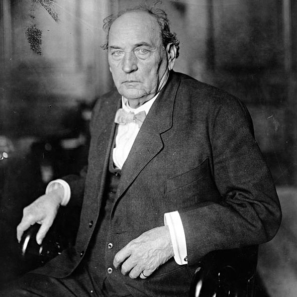 John H. Bankhead, US Senator from Alabama